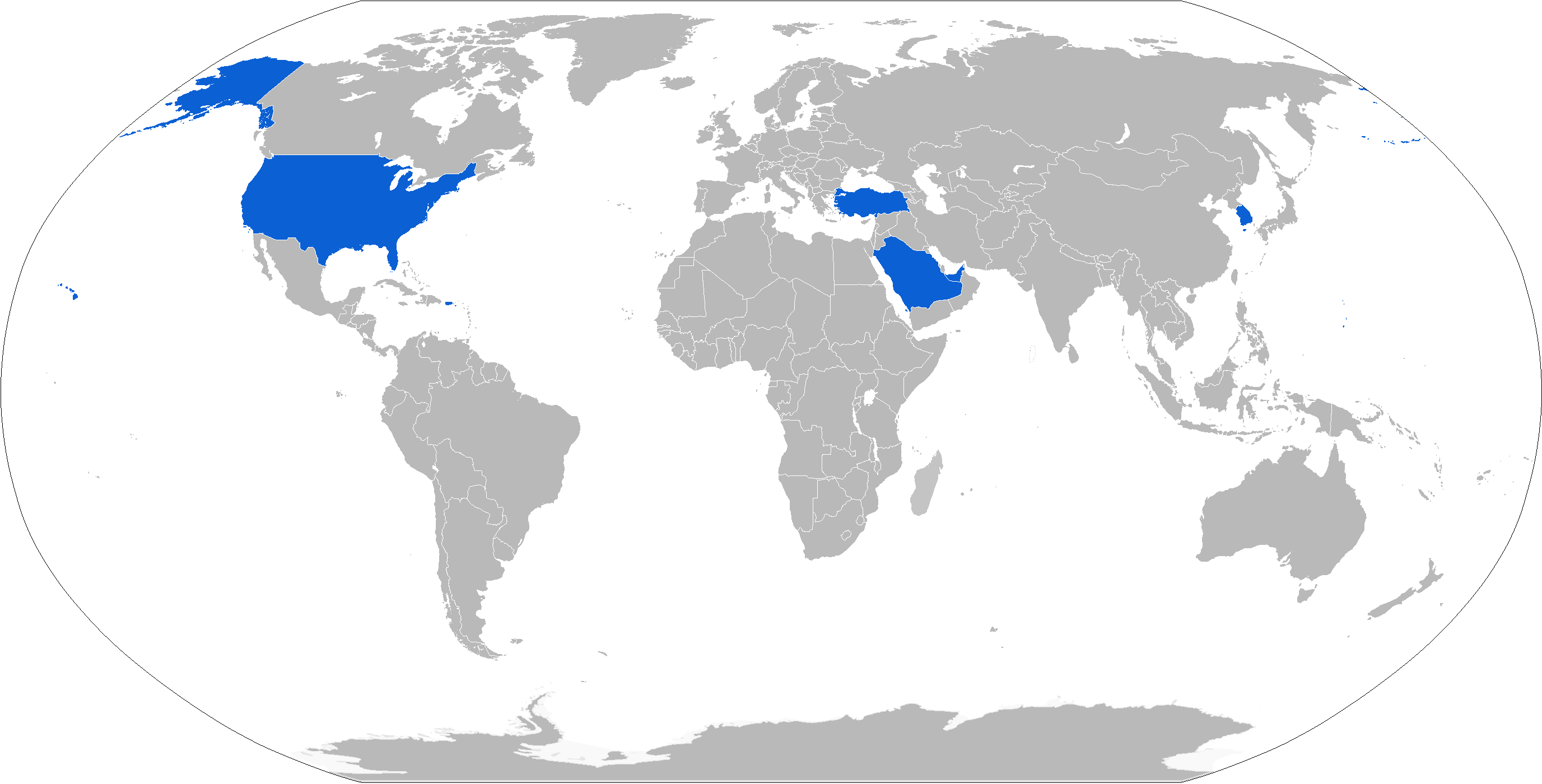 Map with AGM-84H operators in blue